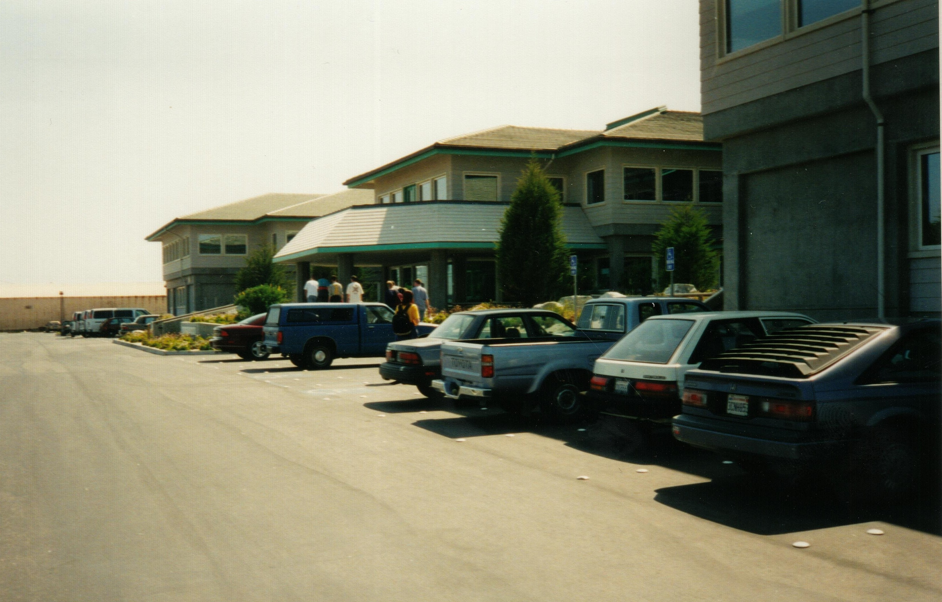 Main entrance of Monterey Bay Aquarium Research Institute (MBARI)